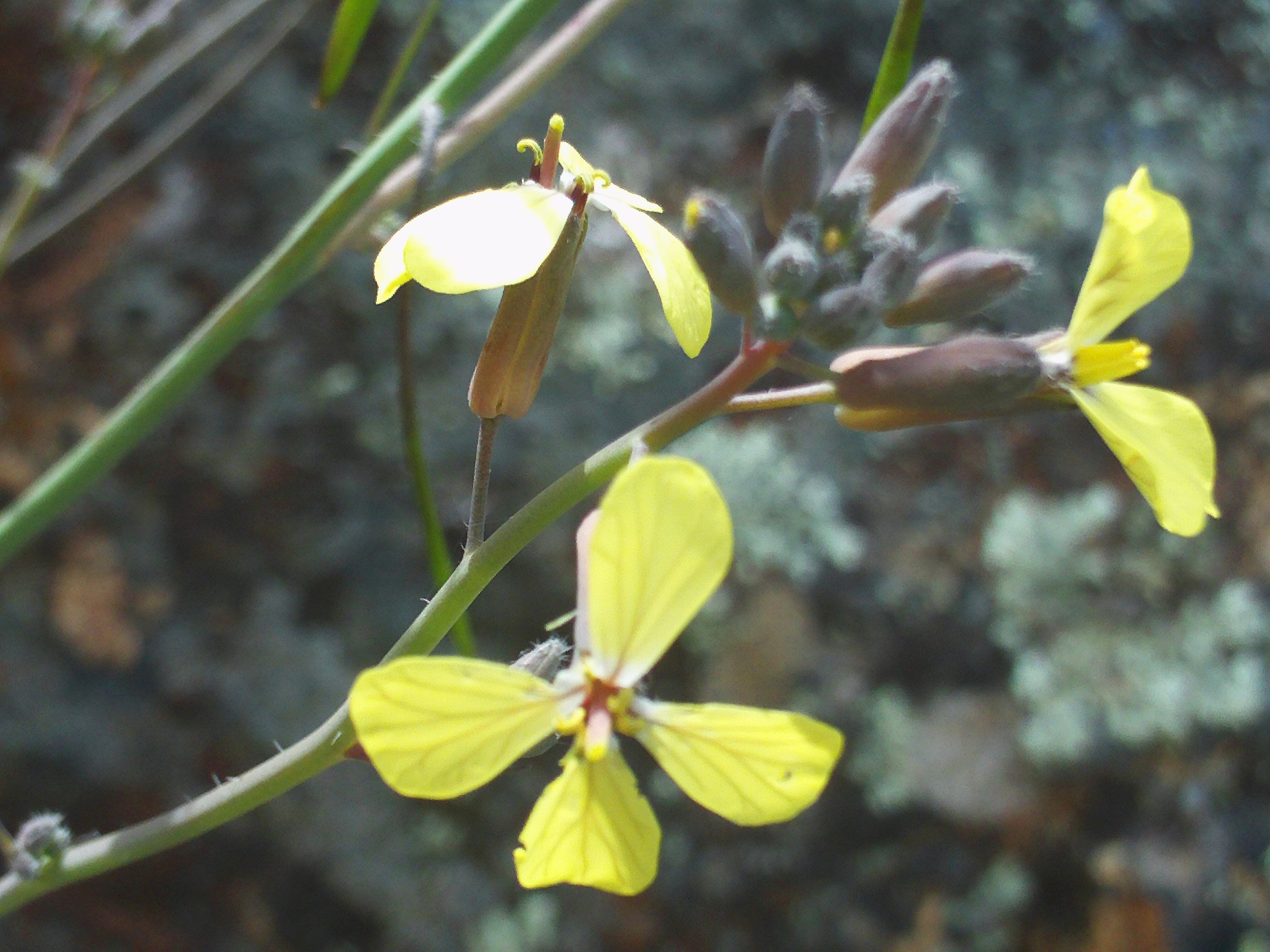 Coincya longirostra flowers close up, Sierra Madrona, Spain